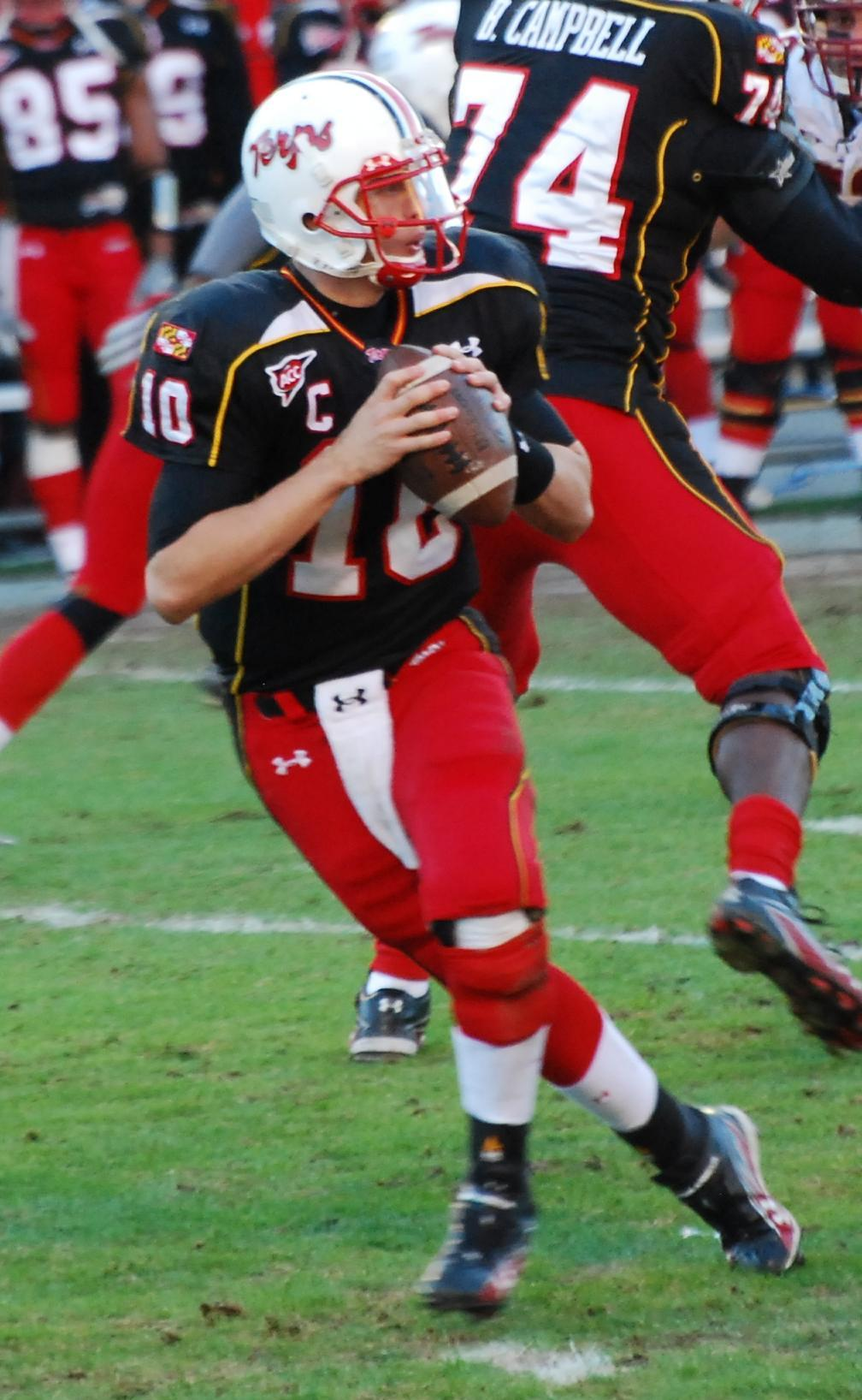 Chris Turner, quarterback of the Maryland Terrapins, dropping back for a pass against Boston College Eagles. Cropped version of File:Chris Turner droppping back.jpg